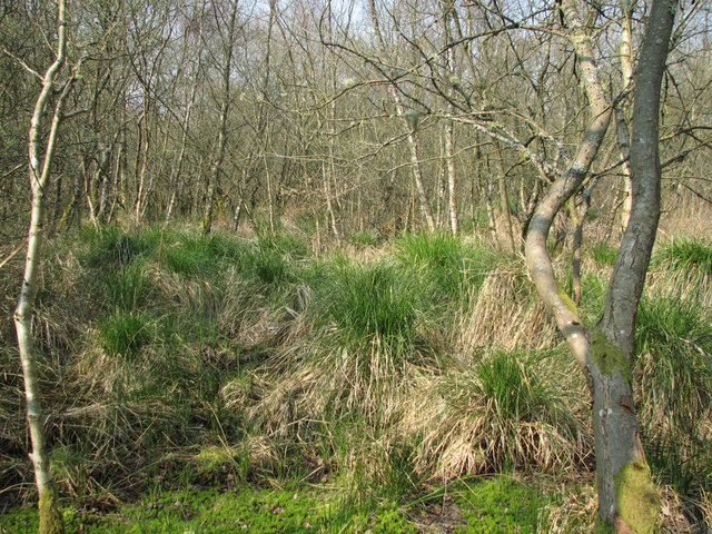 Crymlyn Bog Wet woodland and tussock sedge downstream of Freeman's Bund, an old retention pond on the edge of the Crymlyn Bog Special Area of Conservation. The nearby Llandarcy oil refinery, which has dominated the east side of the Bog since 1922, is now being decommissioned, and is soon to be replaced by the Coed Darcy housing development.